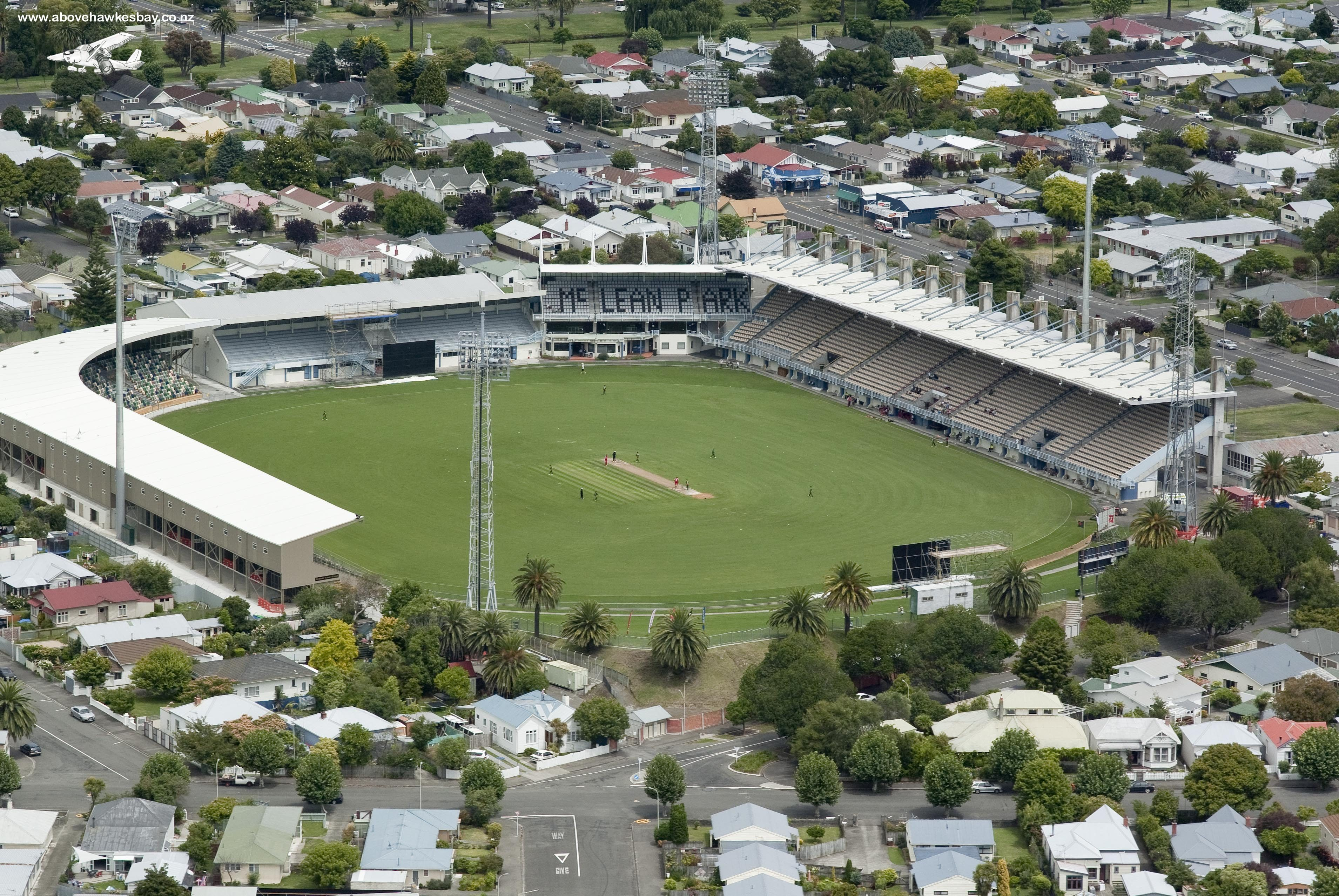 McLean Park is a sports ground in Napier, New Zealand.